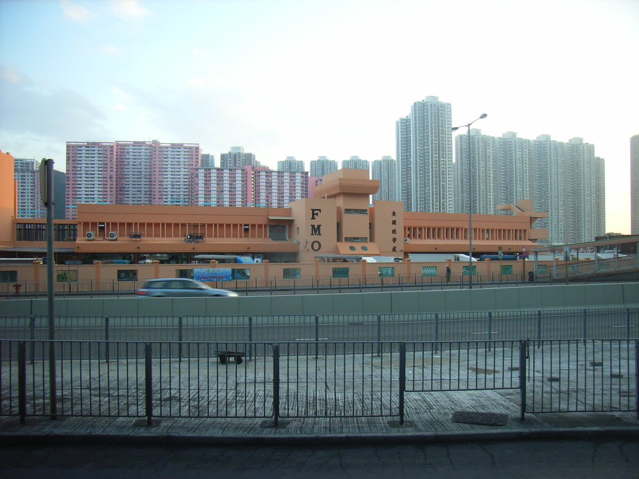 香港仔華人永遠墳場的周邊環境黃昏景觀